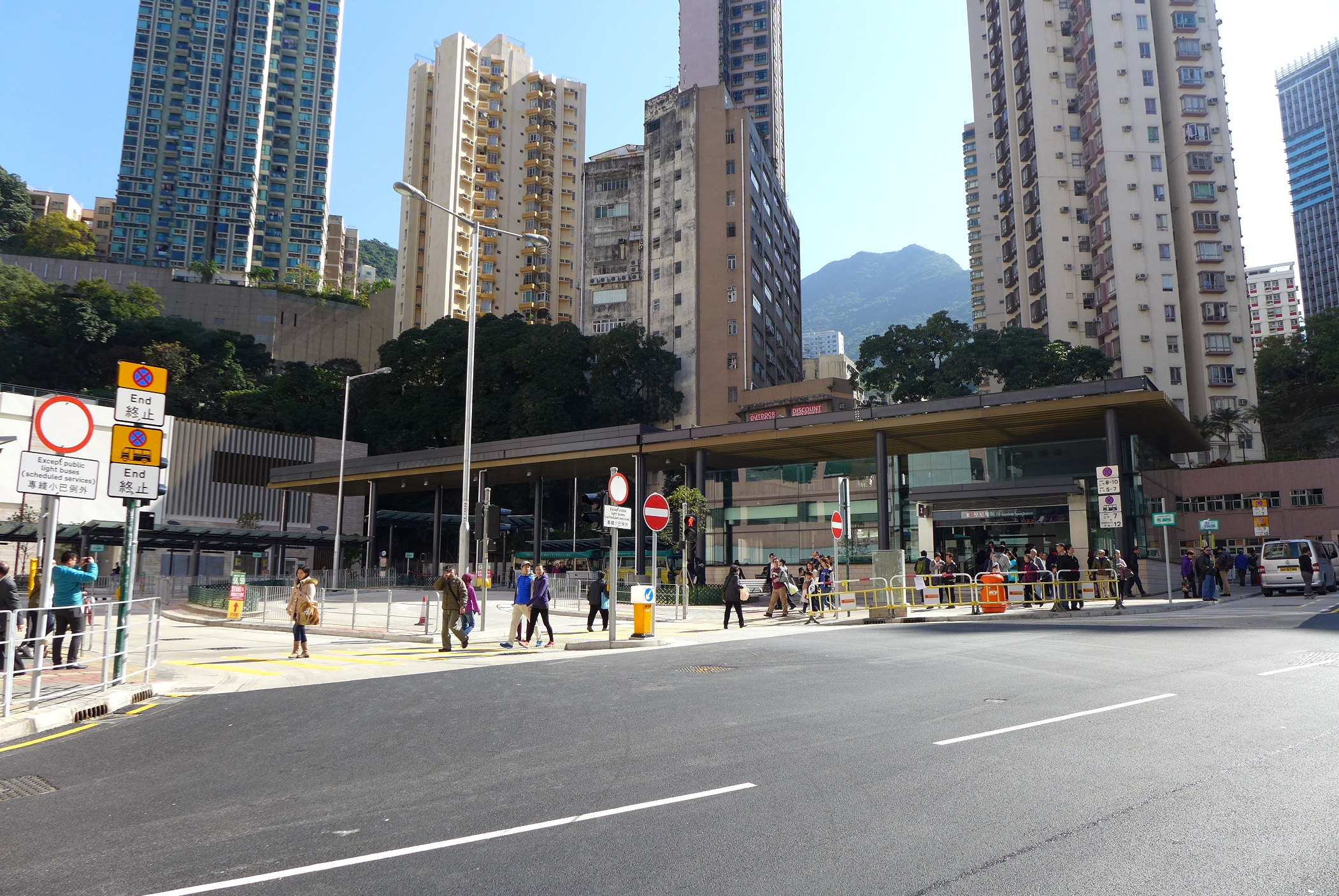 Kennedy Town Station Exit A